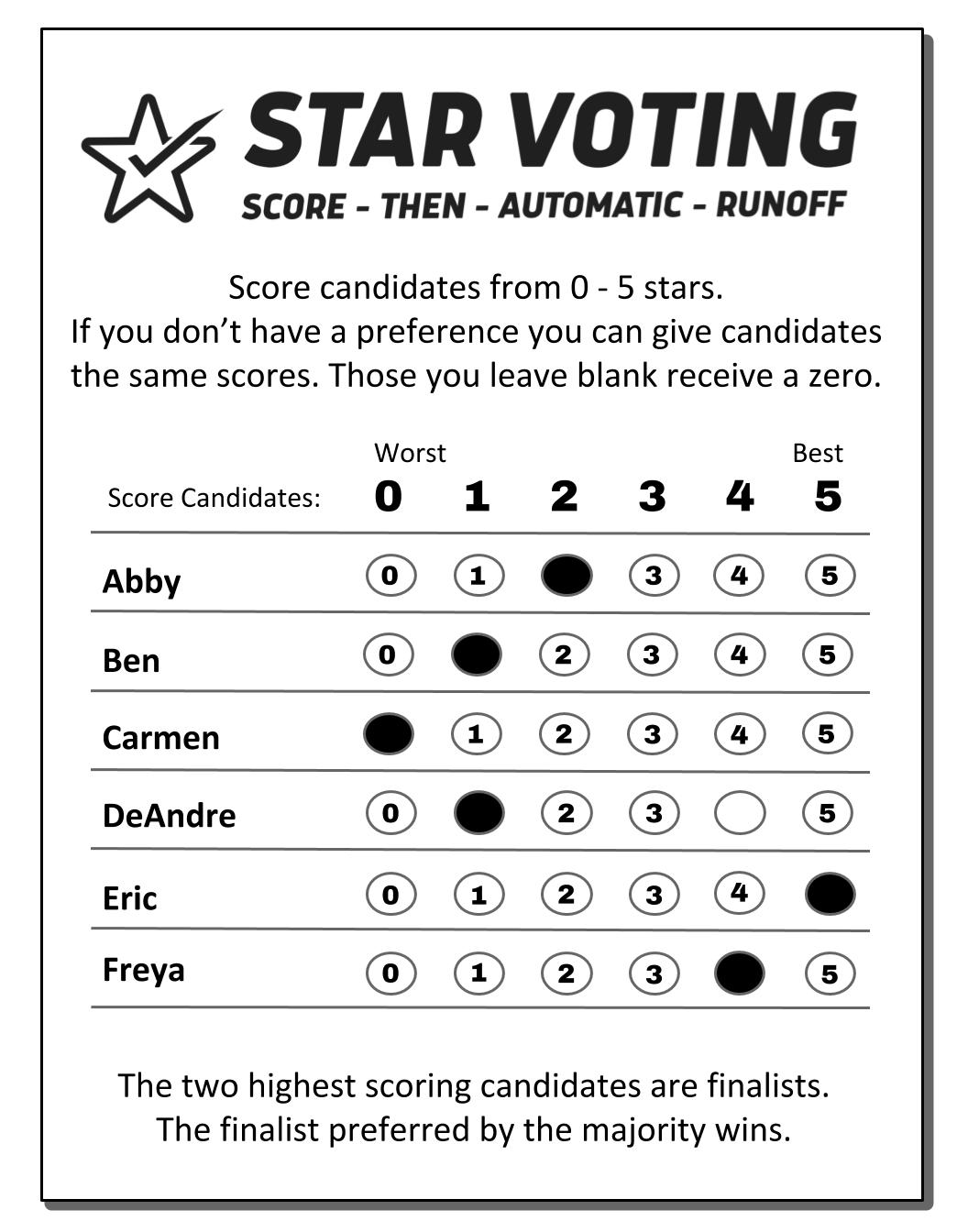 Ballot shows voter instructions, a 0-5 star ballot, and a description of how STAR Voting determines the winner.